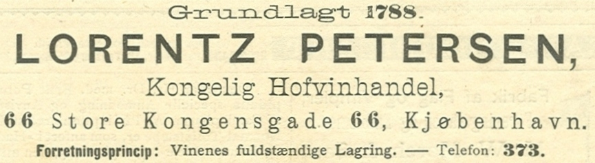 Advertisement for the Lorentz Petersen wine retailer published in Illustreret Tidende on 5 June 1887.